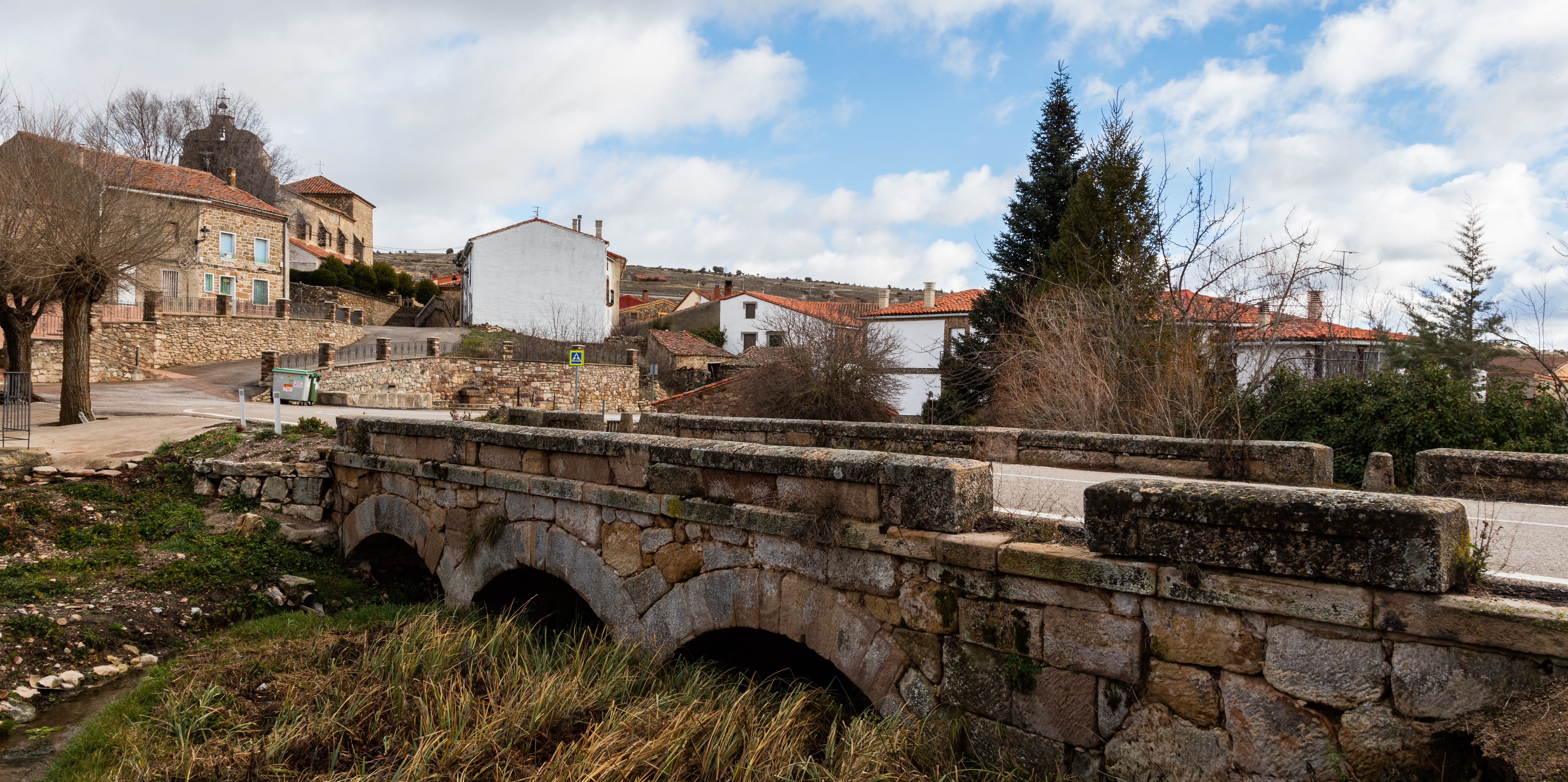 Mazarete, Guadalajara, Spain